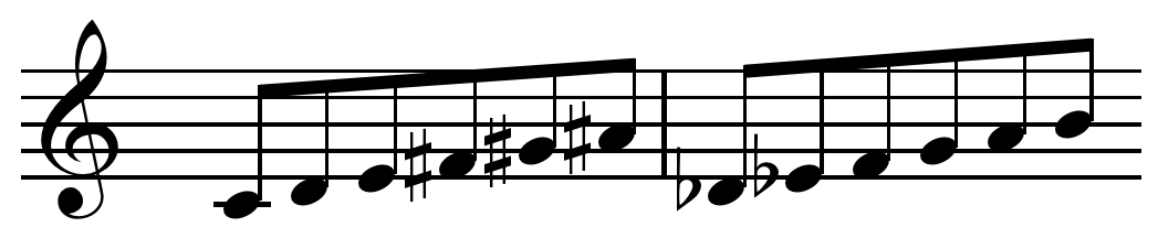 Example of Hauer's tropes (Perle 1991, 145).